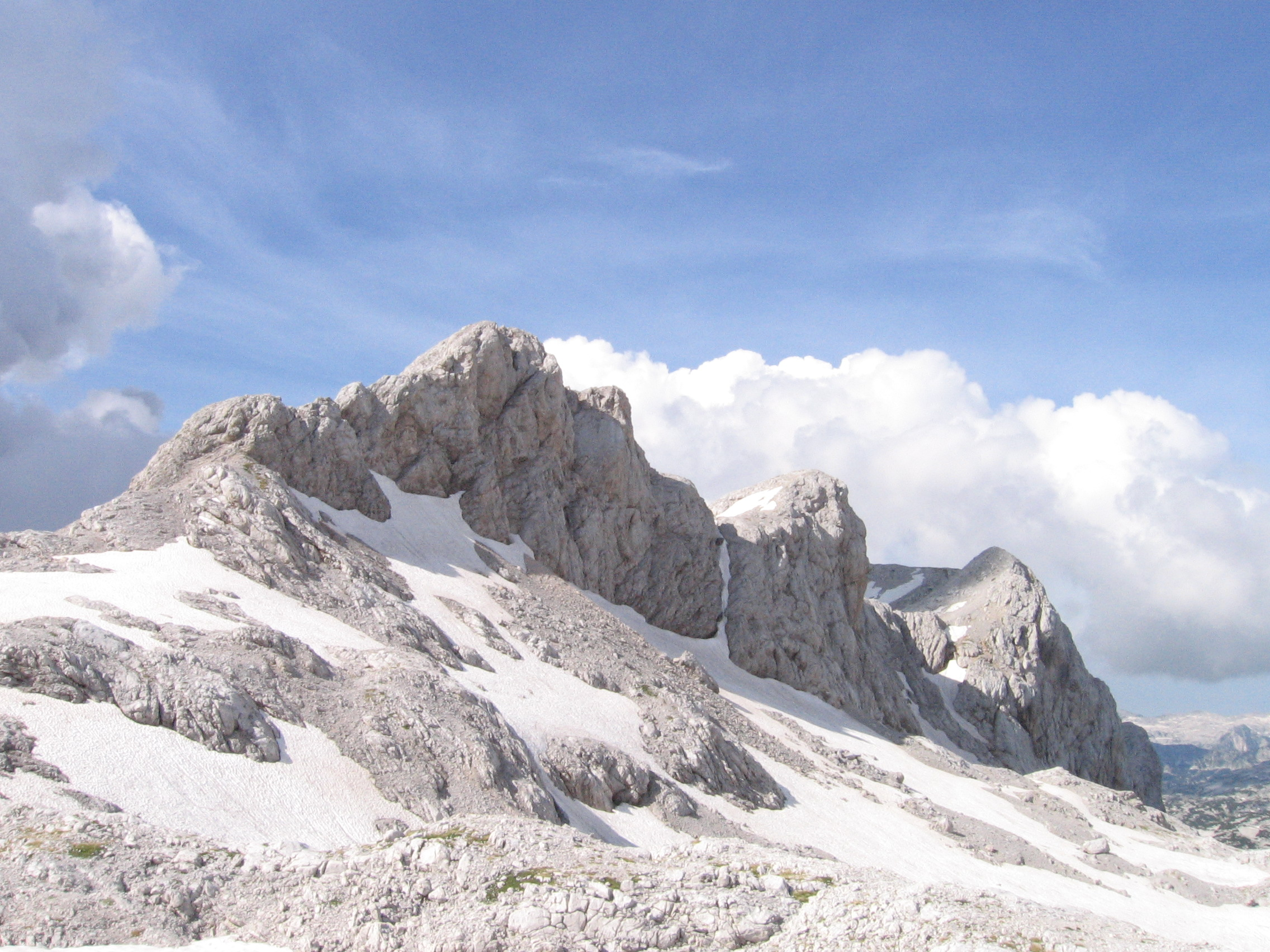 Vršaki peaks (2,448 m) above Hribarice plateau, Slovenia.